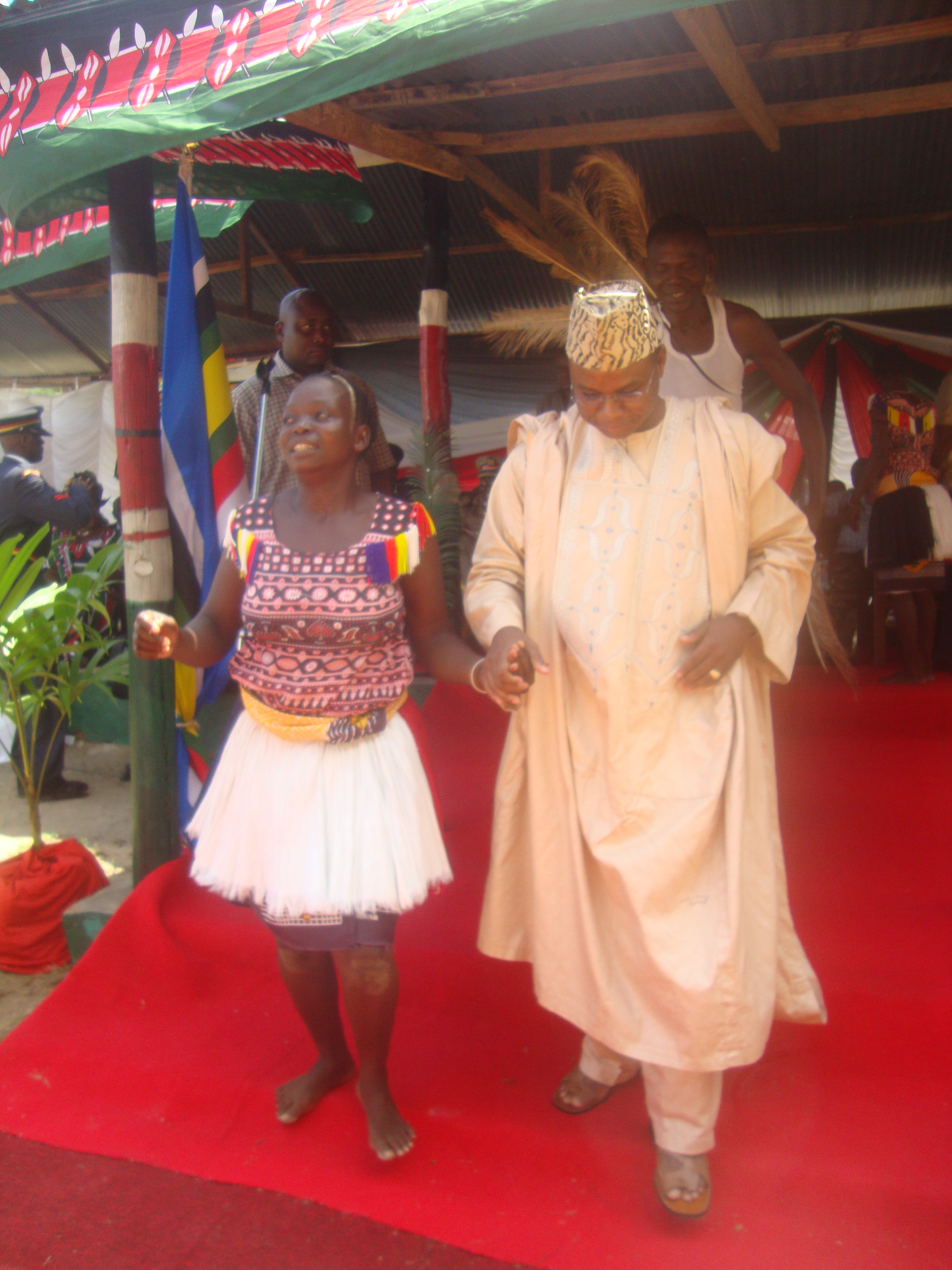 Kilifi governor Amason Kingi with a traditional dance donning a Giryama hando.